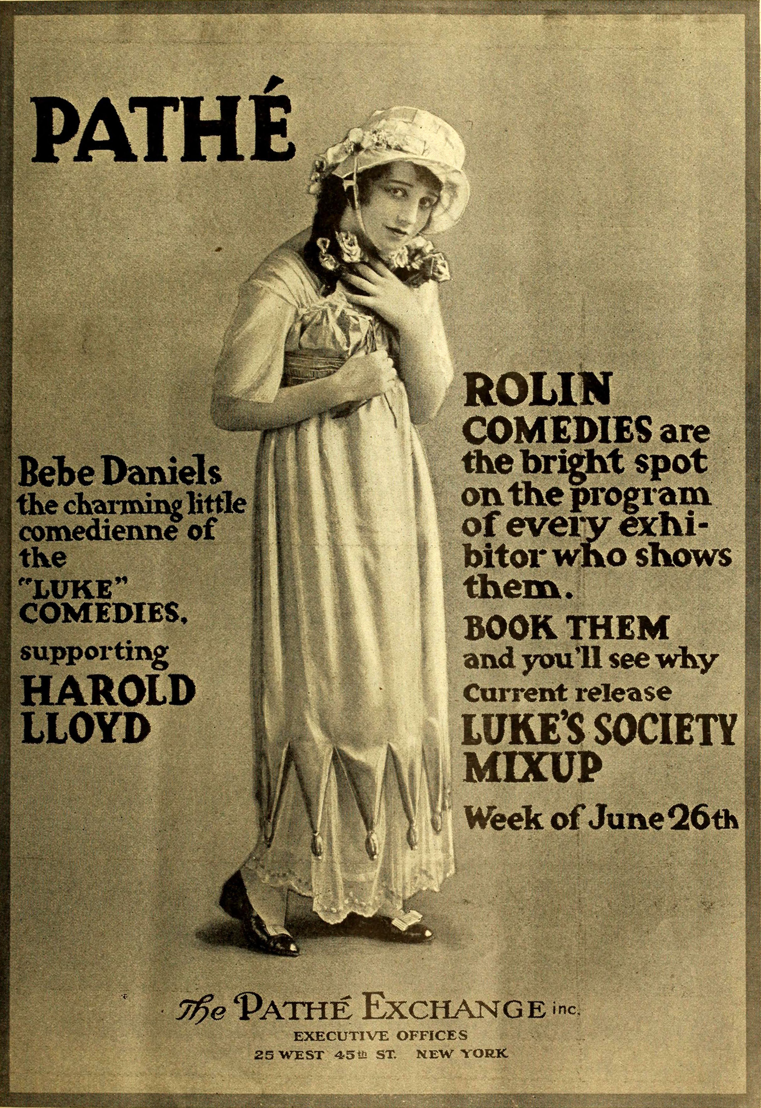 Advertisement in The Moving Picture World